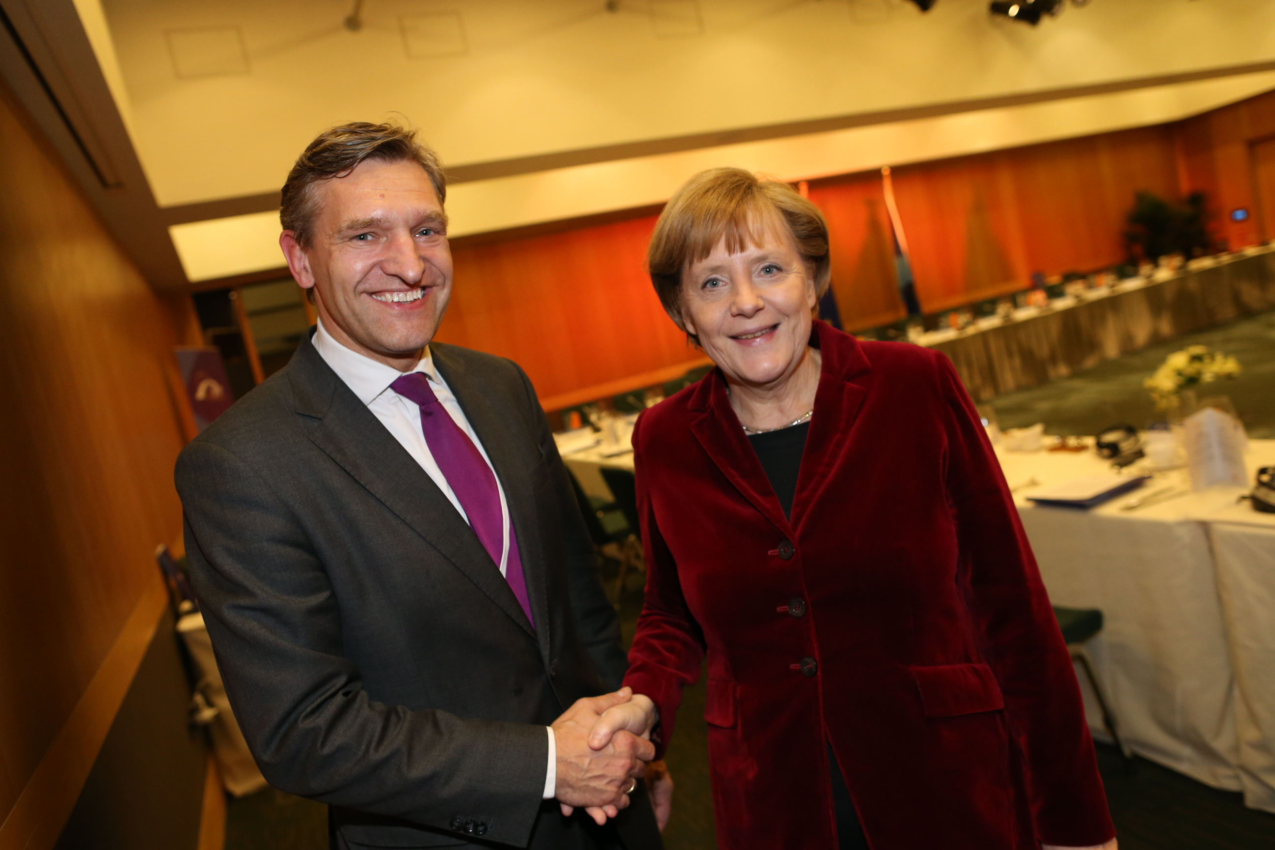 EPP Dublin Congress, 2014